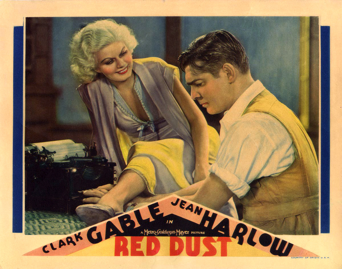 Lobby card from the 1932 film Red Dust with Clark Gable and Jean Harlow.